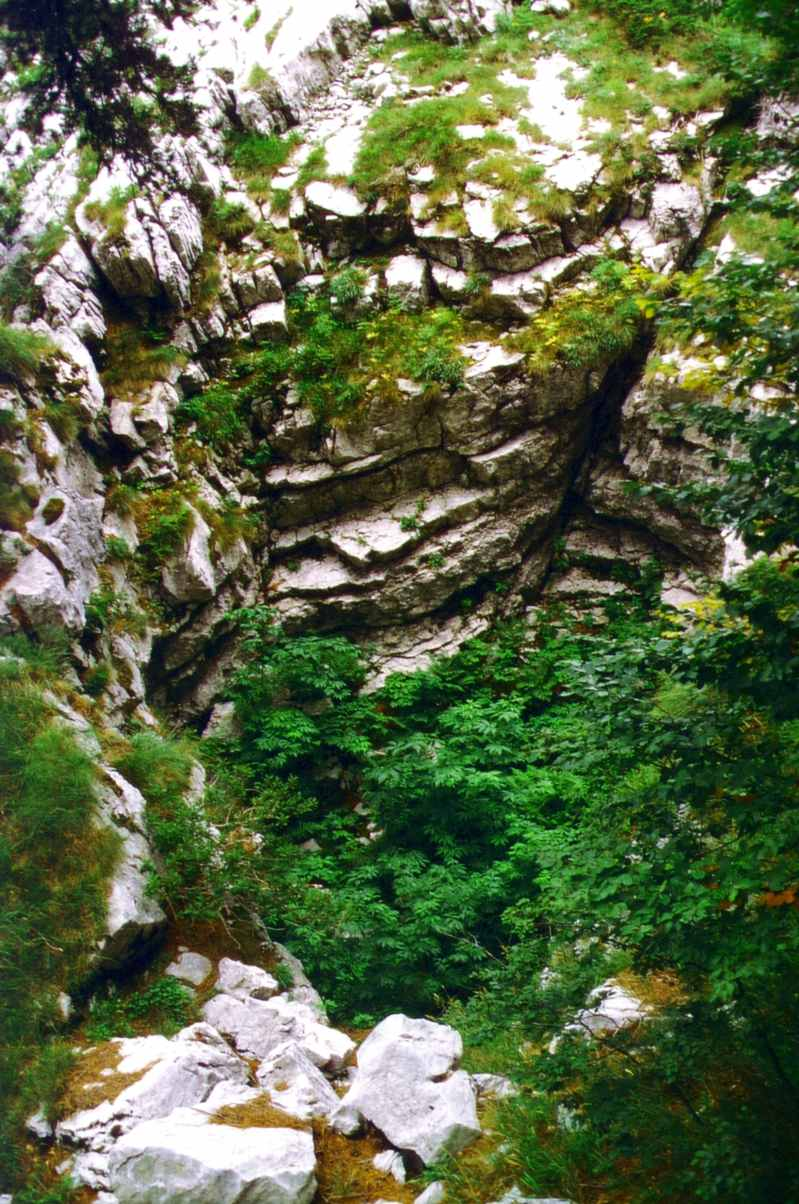 A sinkehole typical in its dimensions in the Karst of Orjen.